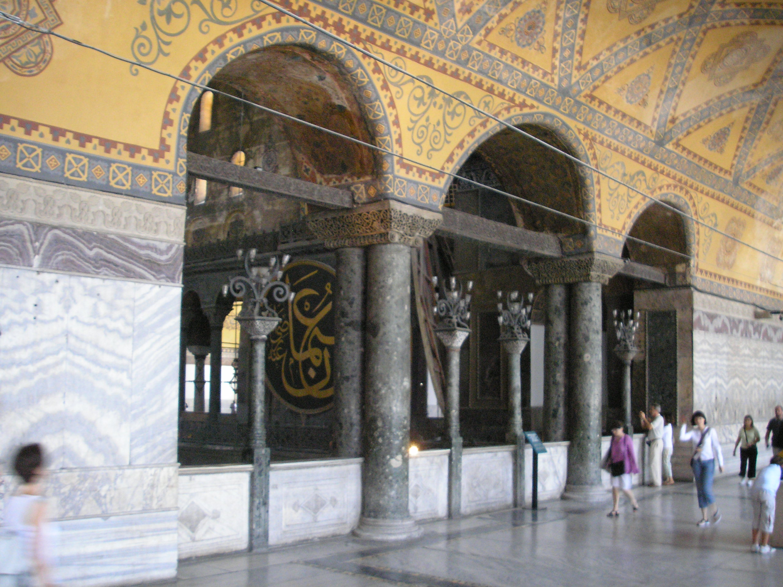 The Loge of the Empress in the upper enclosure of the Hagia Sophia. From here the empress and the court ladies watched the proceedings down below the basilica.